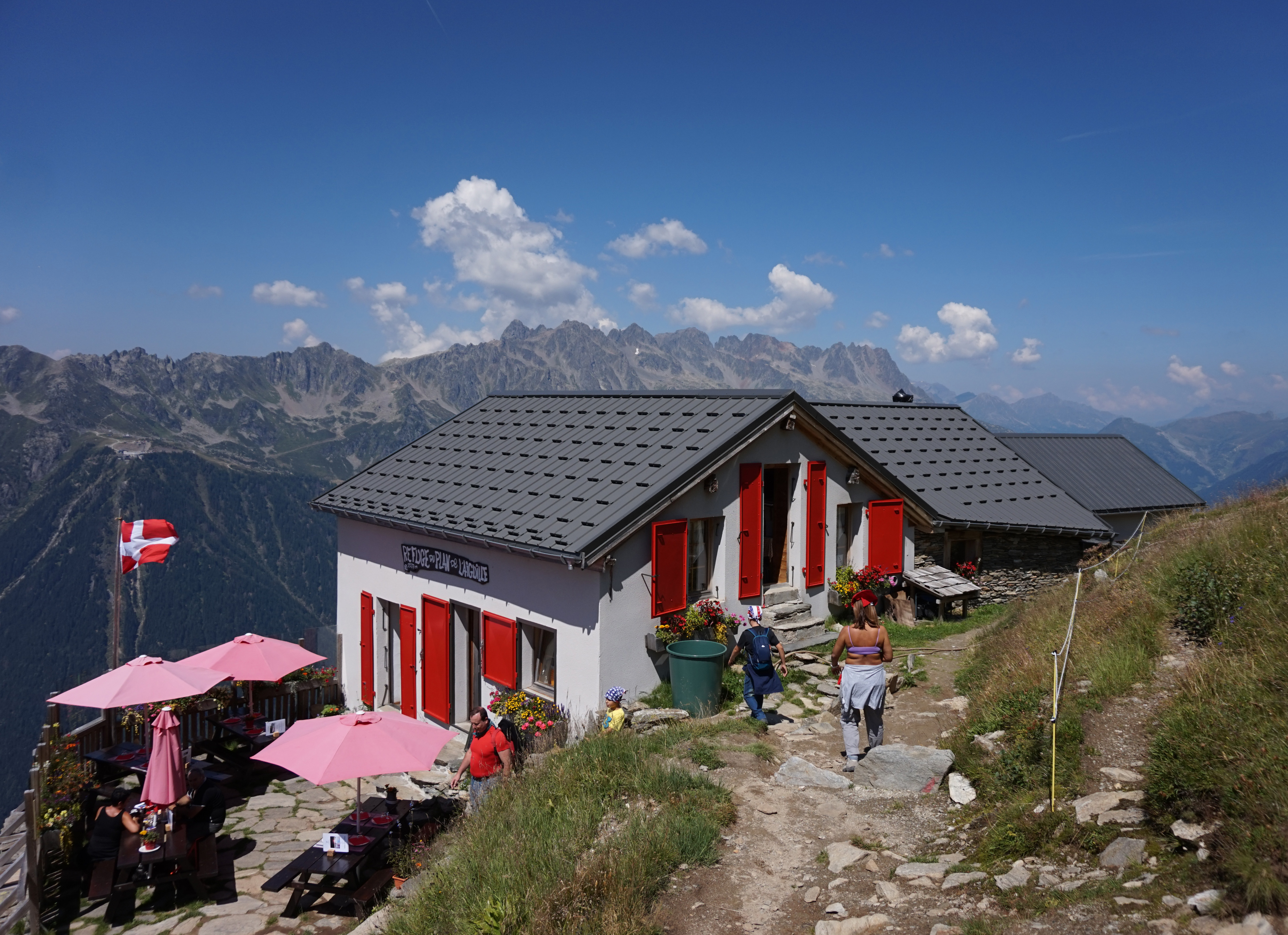 Write hereThis photograph was taken with a Sony ILCE-5000